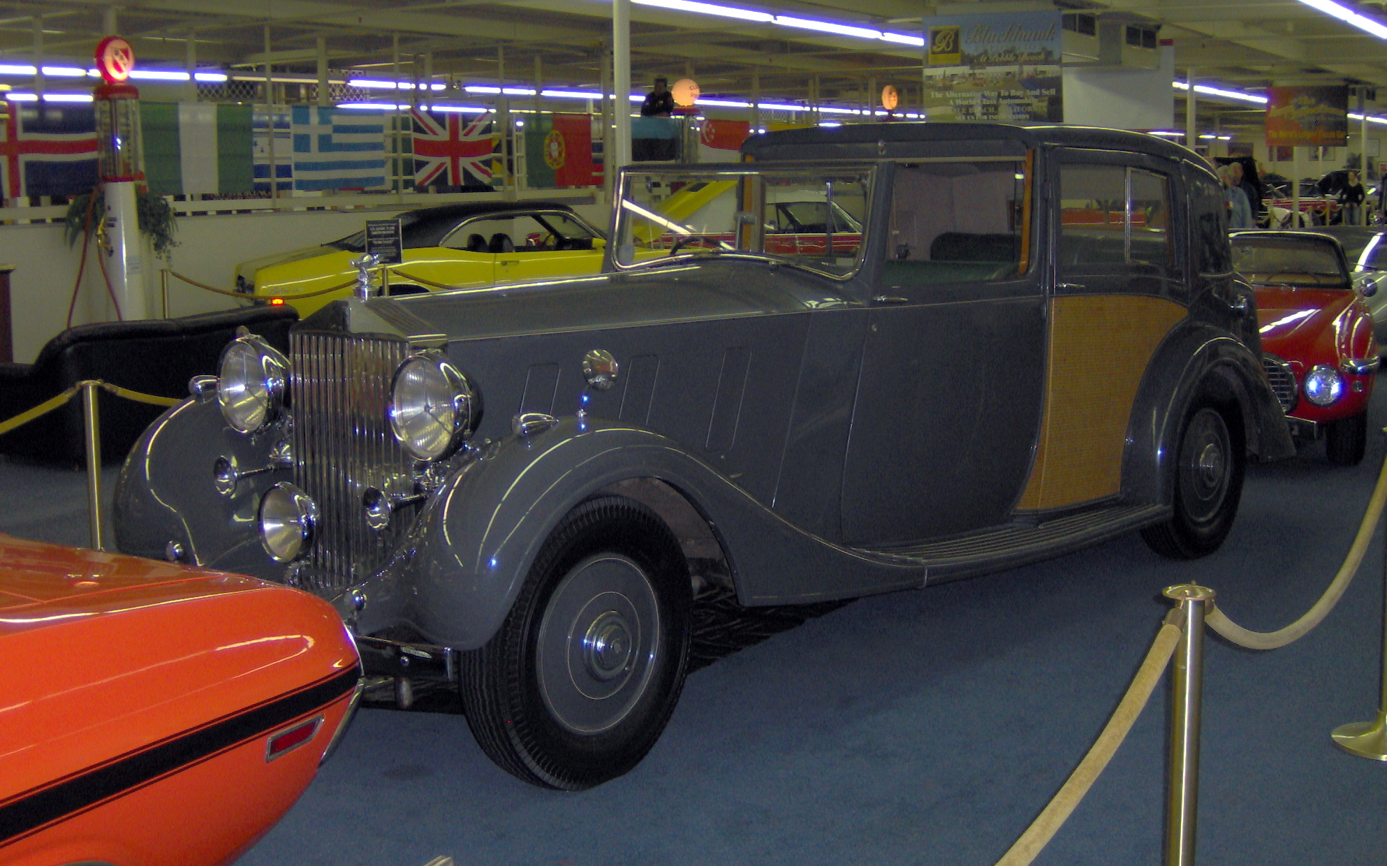 1937 Rolls-Royce Phantom III Hooper Sedanca Deville